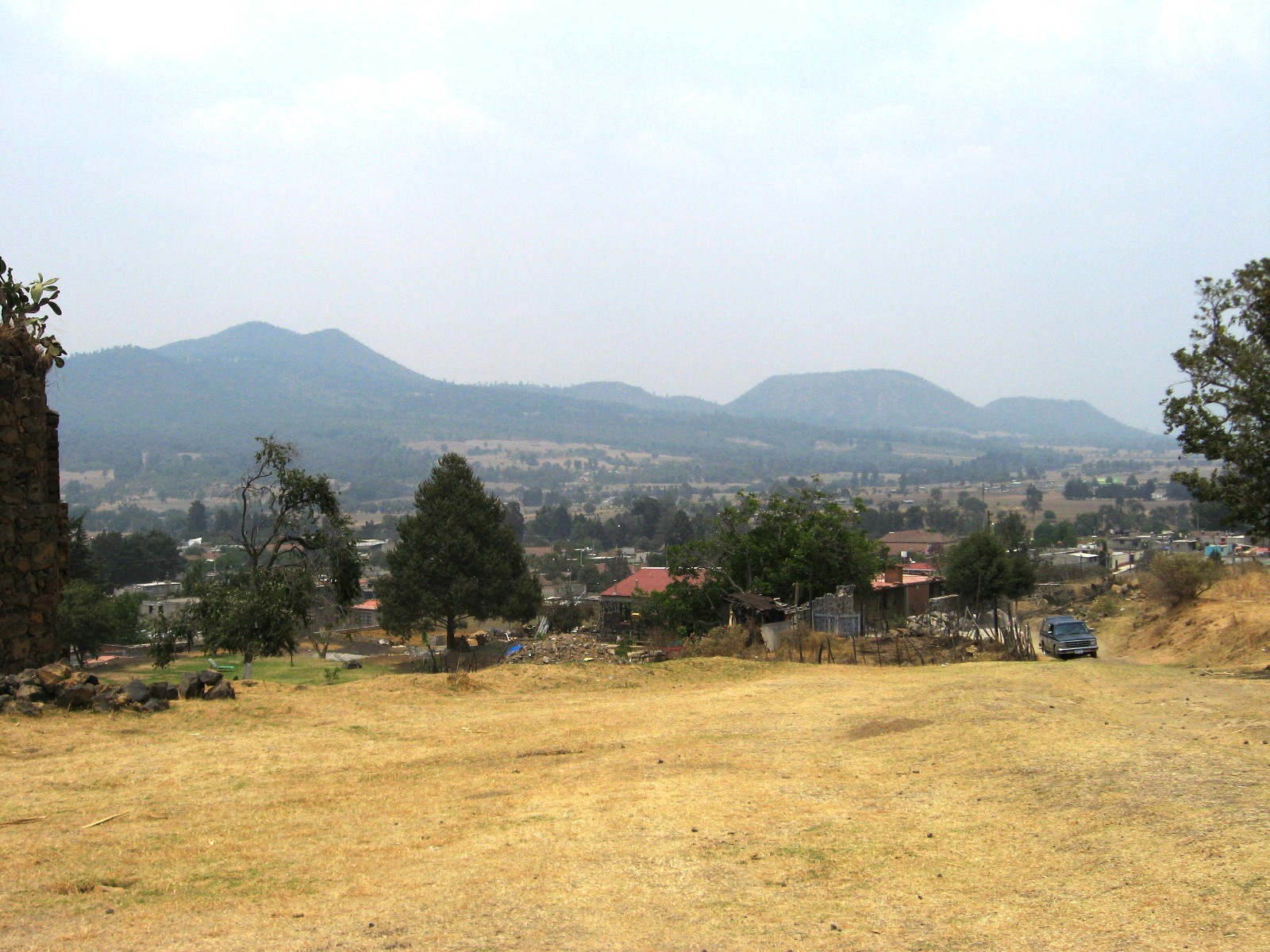 View of Ayapango, Mexico State, Mexico from the old Franciscan Monastery